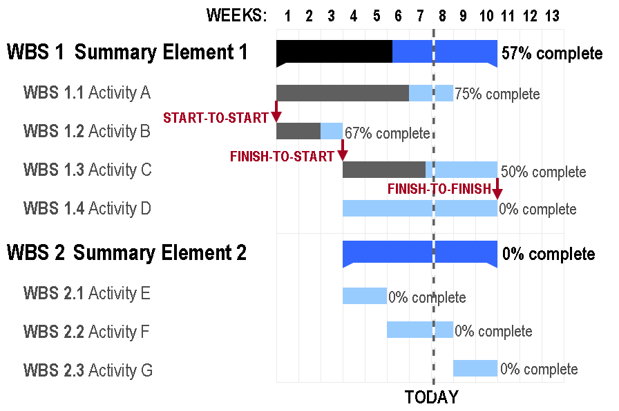 Created by Garry L. Booker. It is intended to be more descriptive than the previous example.